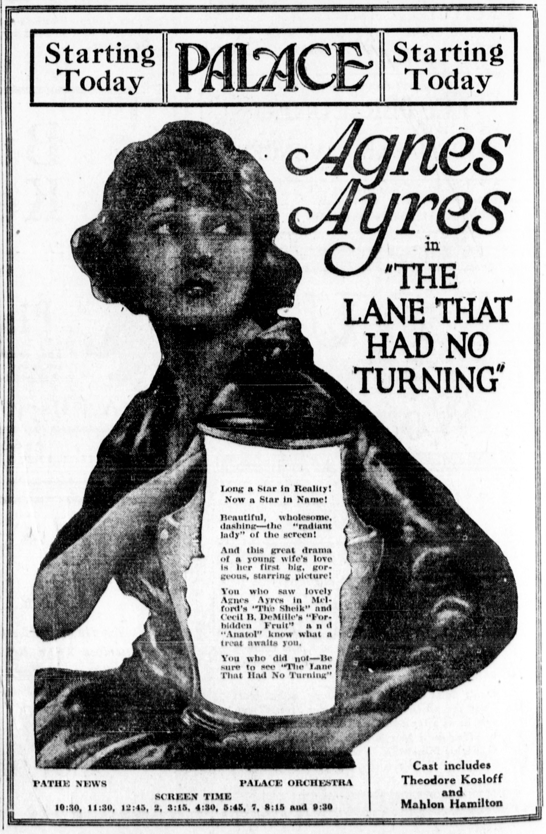 The Lane That Had No Turning is a 1922 silent film by Victor Fleming. This is a newspaper advertisement for the film.